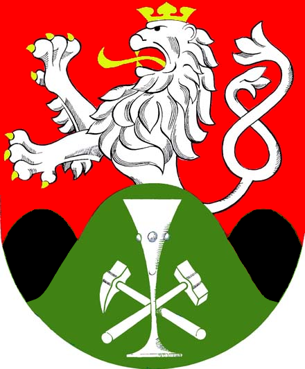 Coat of arms of Košťany town, Teplice District, Czech Republic.